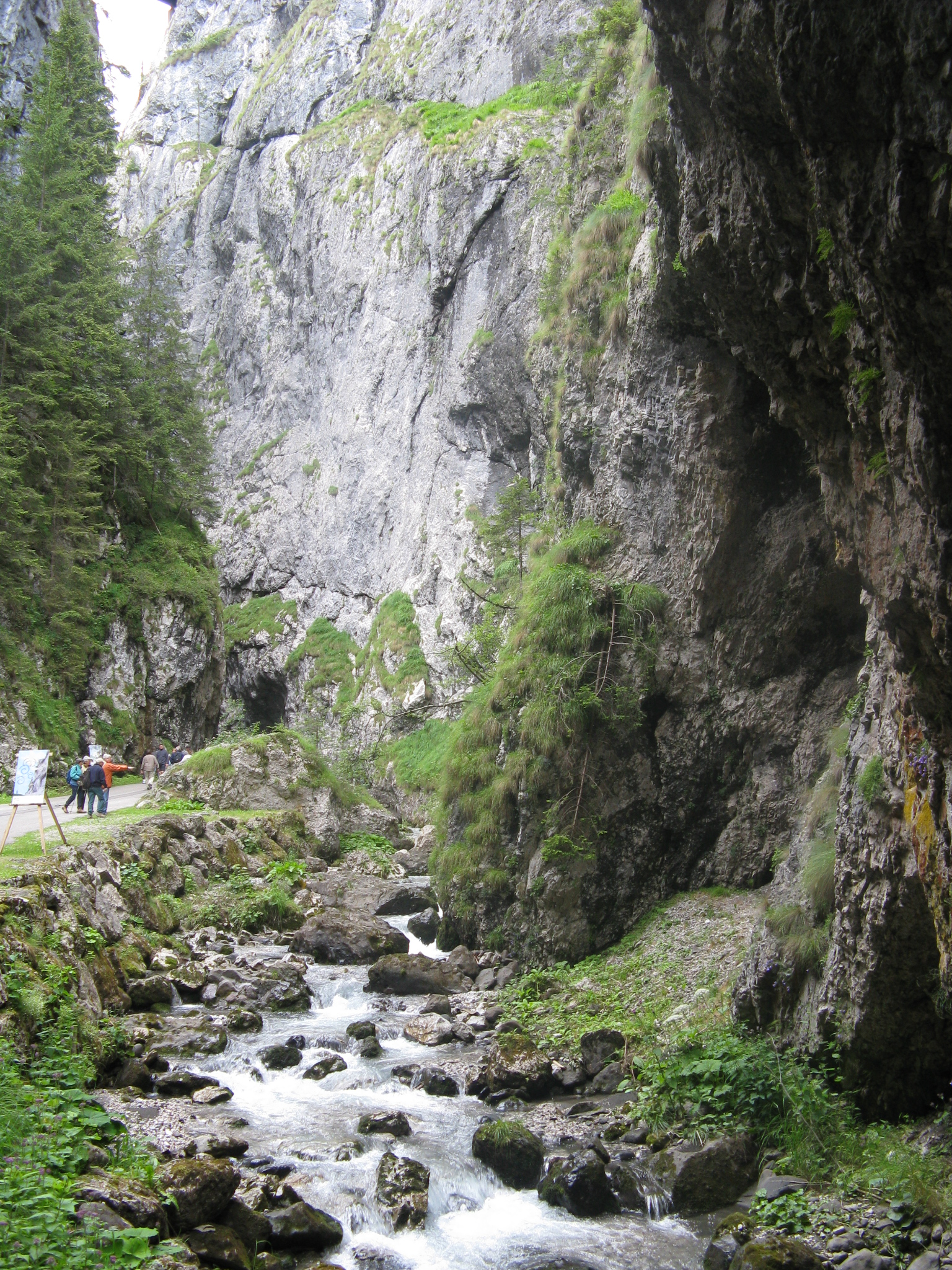 Serrai Gorge, Rocca Pietore/Italy